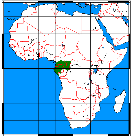 Range map for Golden Angwantibo (Arctocebus aureus), map made with help of Map depending on the range map at IUCN red list.